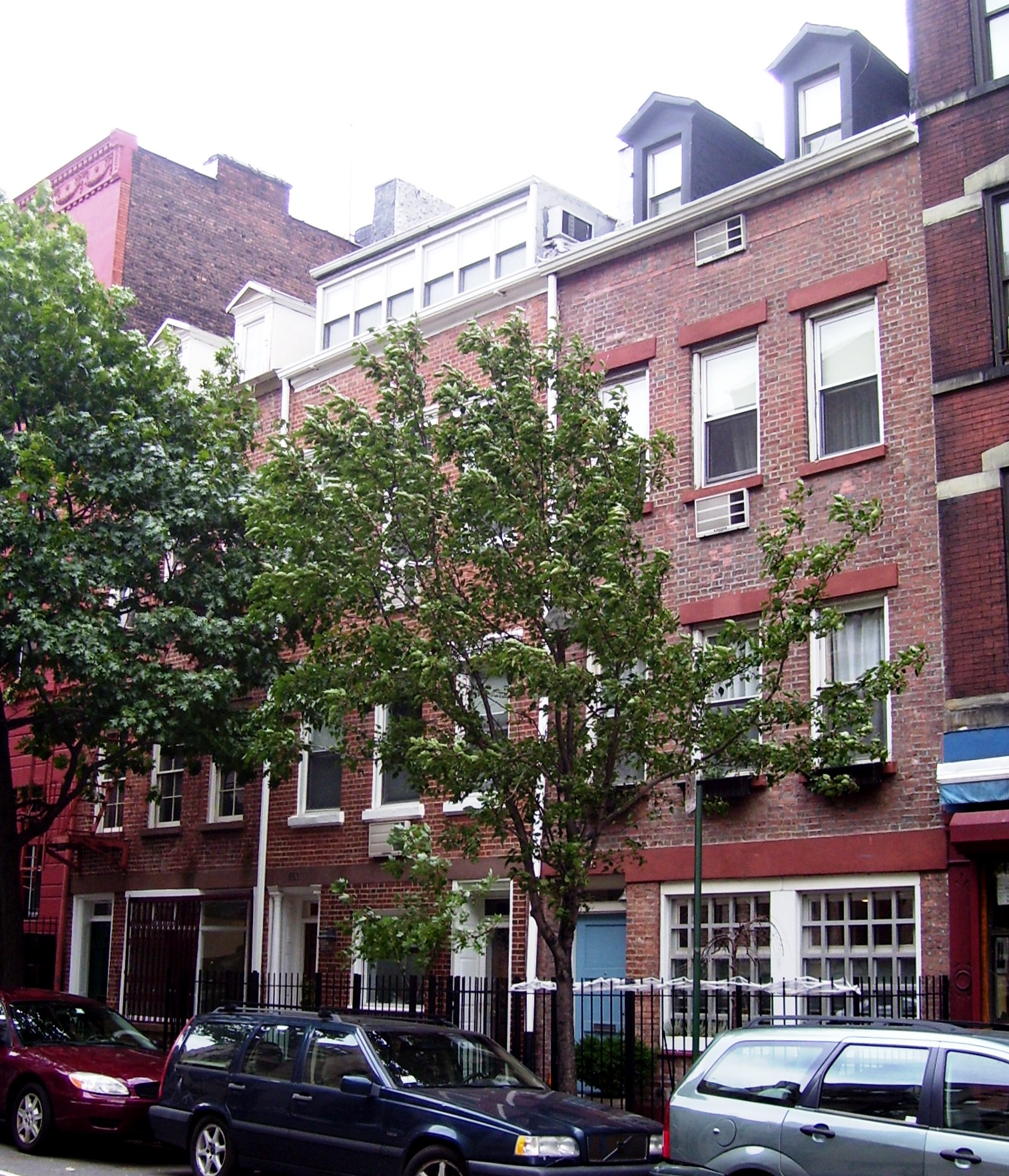 651 (right), 653 (center) and 655 (left) Washington Street between Christopher Street and West 10th Street in the West Village neighborhood of Manhattan, New York City, were built in 1829 in the Federal style. The rowhouses, which originally had storefronts on the street level, are located within the Greenwich Village Historic District Extension. (Source: "NYCLPC Greenwich Village Historic District Extension Designation Report")